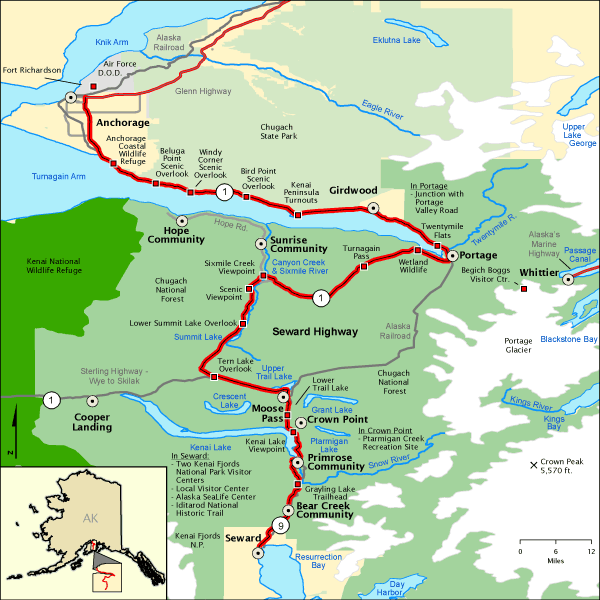 Map of the Seward Highway All-American Road